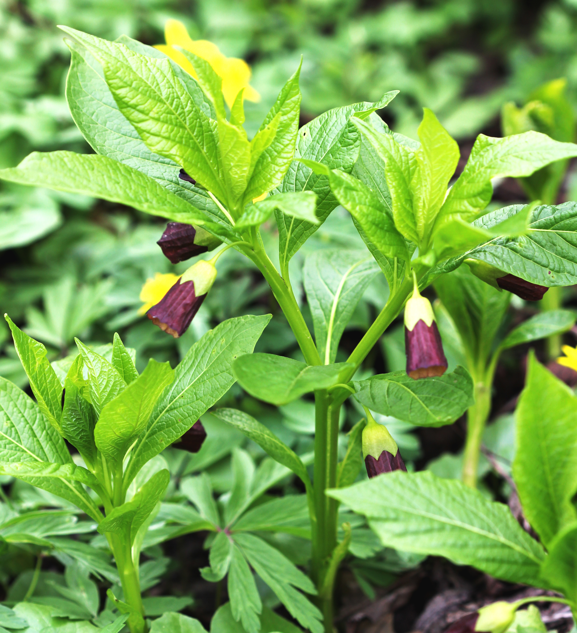 Flowering plants Scopolia carniolica, (Scopolia carniolica) from the Botanical Gardens of Charles University, Prague, Czech Republic